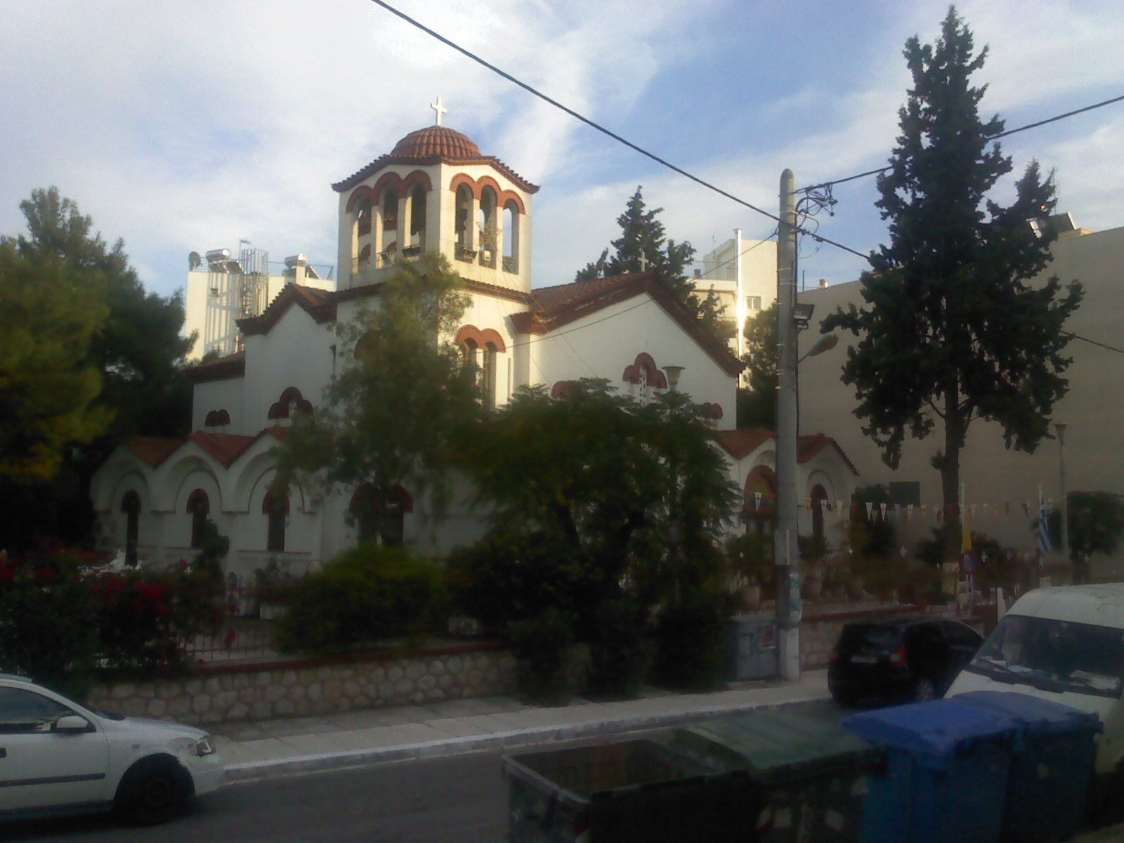 Panagitsa Inepoli